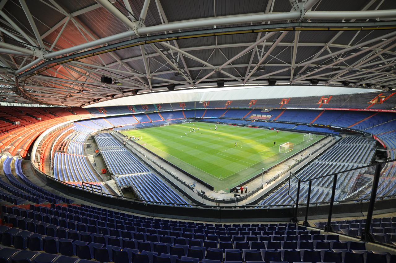 Stadion Feijenoord (De Kuip) in Rotterdam, the Netherlands